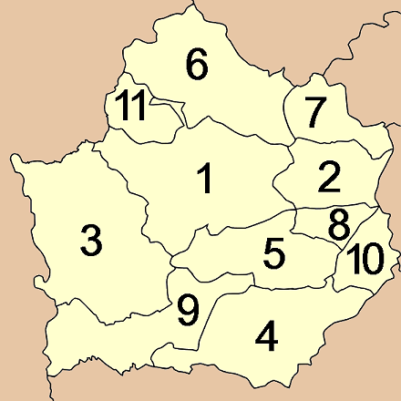 Map of Kamphaeng Phet province, Thailand, with the districts numbered. Mueang Kamphaeng Phet Sai Ngam Khlong Lan Khanu Woralaksaburi Khlong Khlung Phran Kratai Lan Krabue Sai Thong Watthana Pang Sila Thong Bueng Samakkhi (sub-district) Kosamphi Nakhon (sub-district)